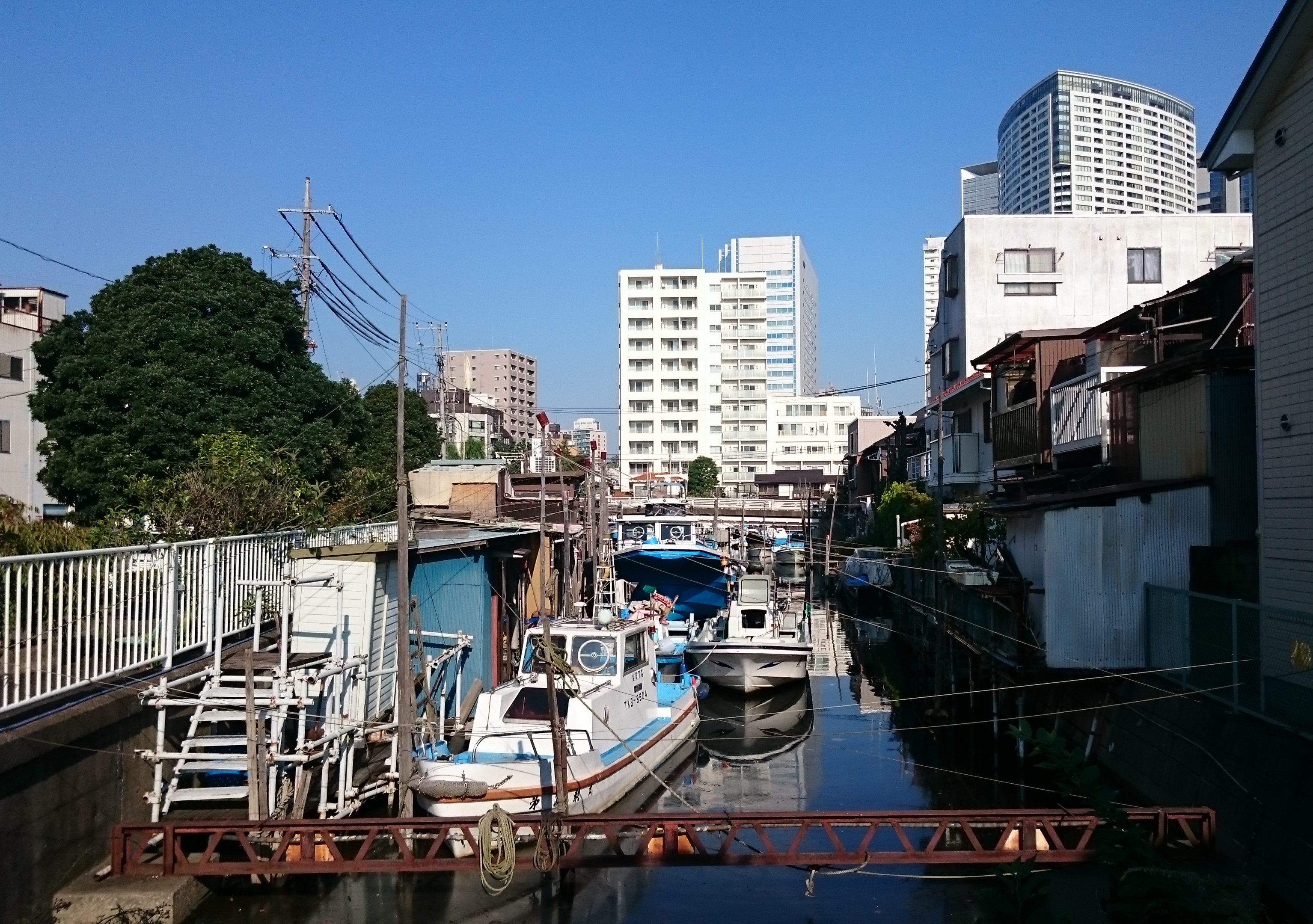 Site of Shinagawa Minato, an old port in Tokyo.